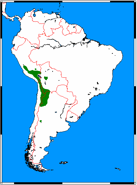 Range map for Andean Mountain Cat (Leopardus jacobitus), made by me with help of Map depending on the range map at IUCN red list.